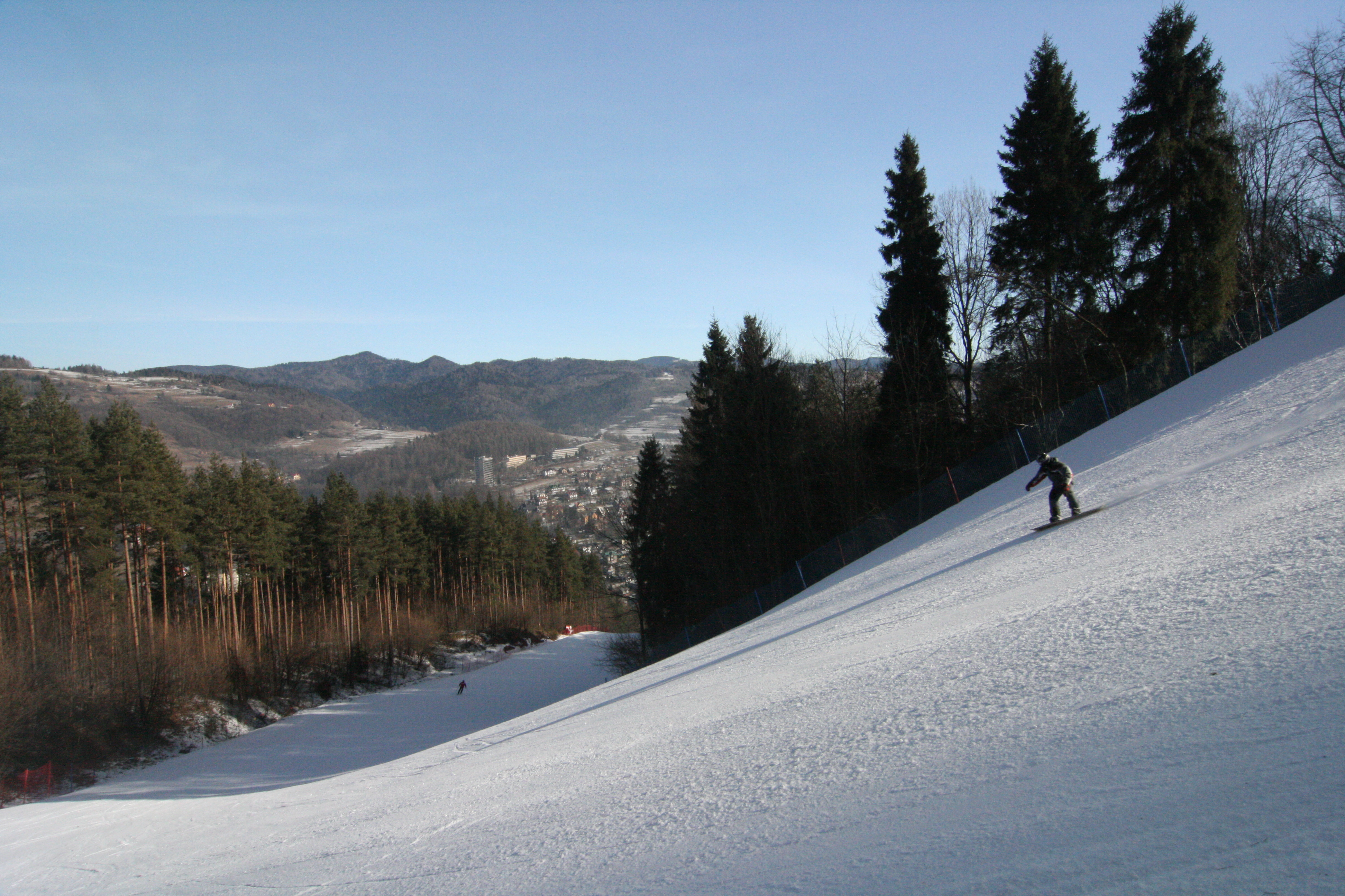 Palenica 1 ski trail in Palenica ski area